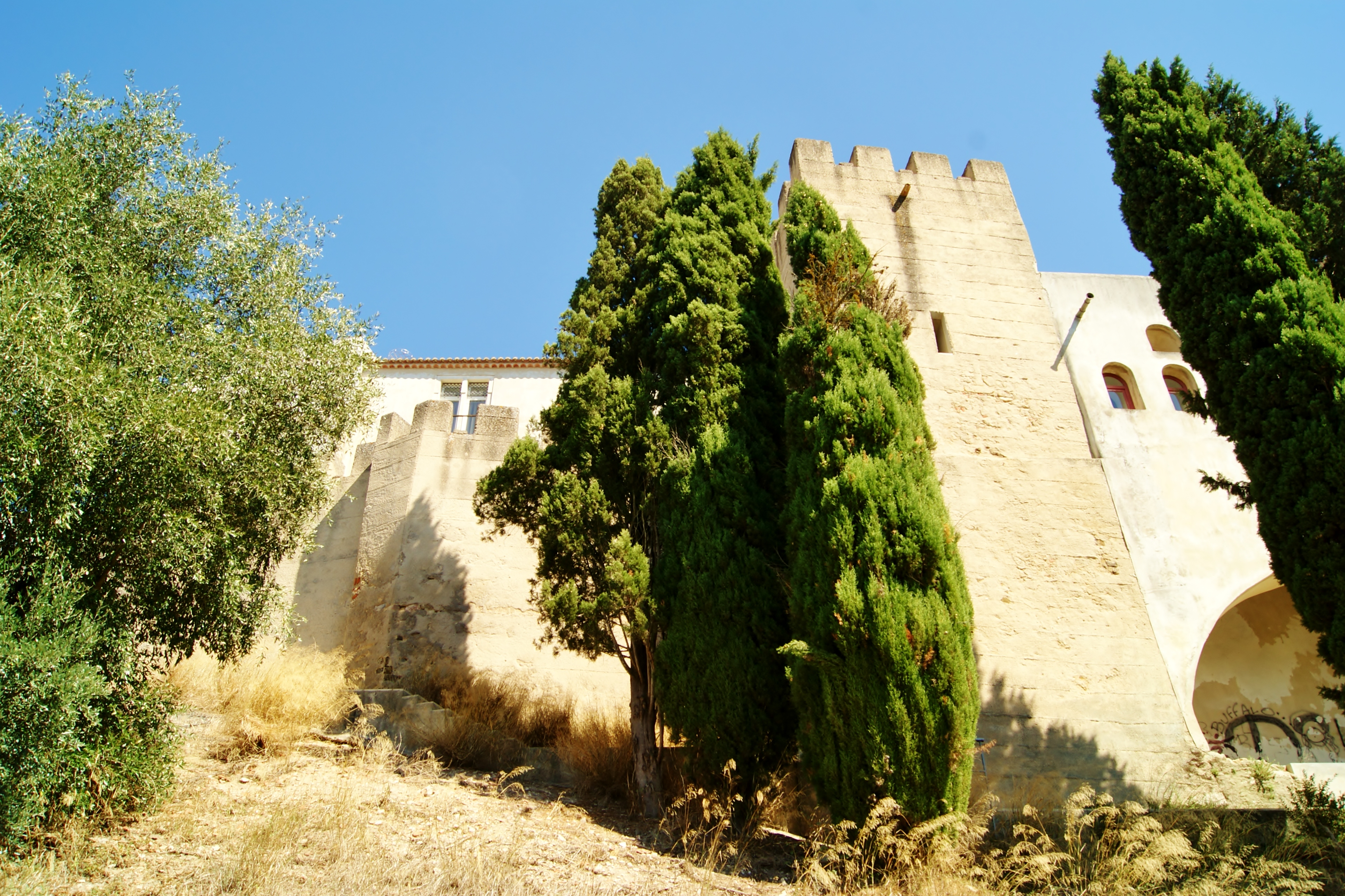 This file was uploaded for Wiki Loves Monuments in Portugal with the unique identifier 70159.